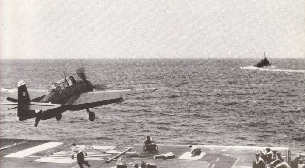 A U.S. Navy Grumman TBM-3E Avenger torpedo bomber of composite squadron VC-9 taking off from the escort carrier USS Natoma Bay (CVE-62) on 7 June 1945. The Natoma Bay had been struck by a Kamikaze plane earlier that day off Okinawa. Damage control people can be seen reparing the flight deck in the foreground.